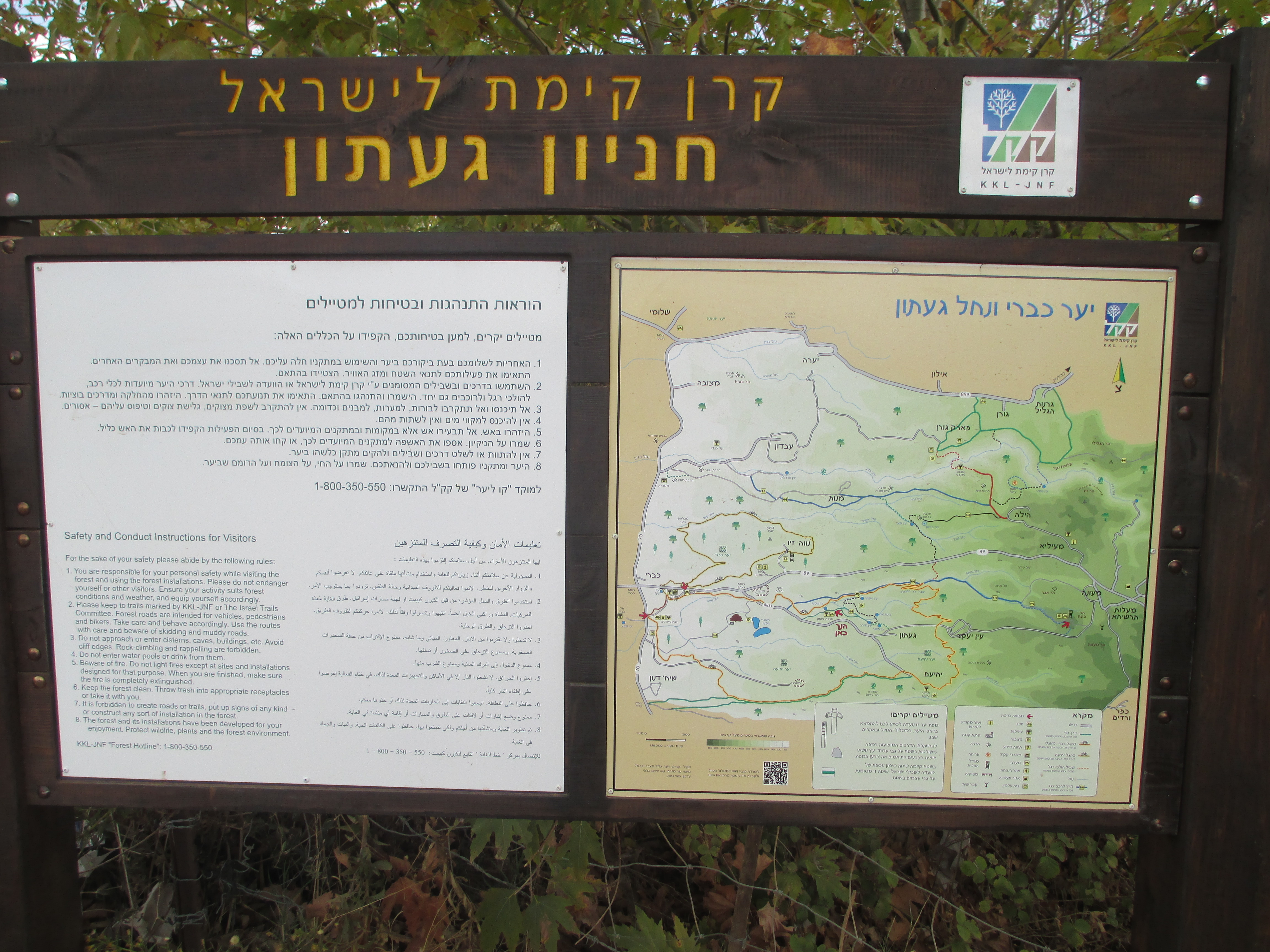 Hurvat Ga'aton